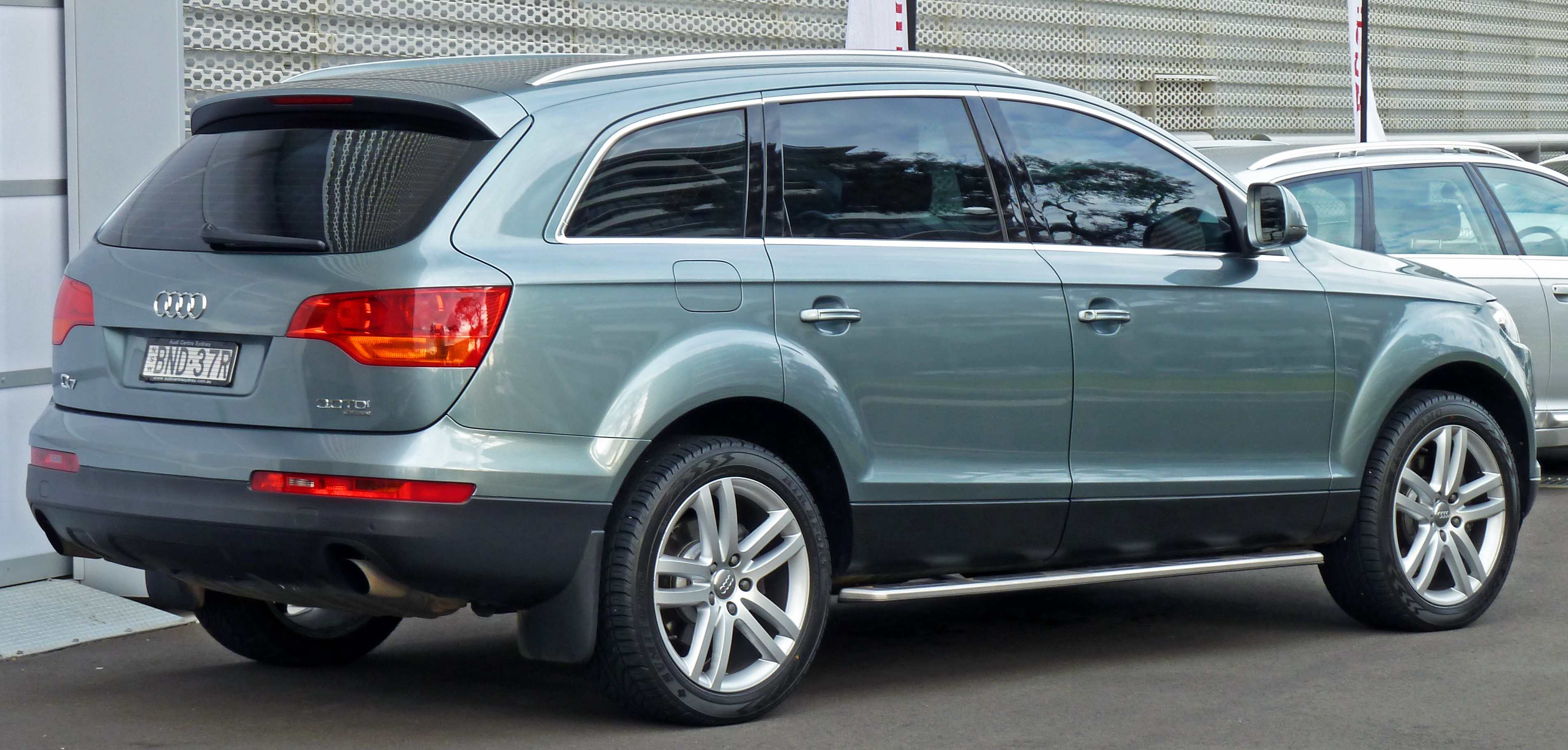 2007 Audi Q7 3.0 TDI quattro. Photographed at the Audi Centre Sydney, Zetland, New South Wales, Australia.